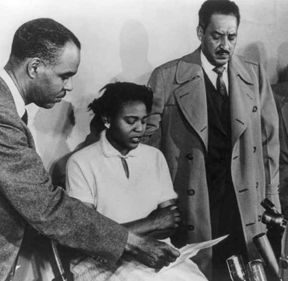 CREDIT: Roy Wilkins in press conference with Autherine Lucy and Thurgood Marshall, director and special counsel for NAACP Legal Defense and Education Fund]." 1956 March 2. Prints and Photographs Division of the Library of Congress.